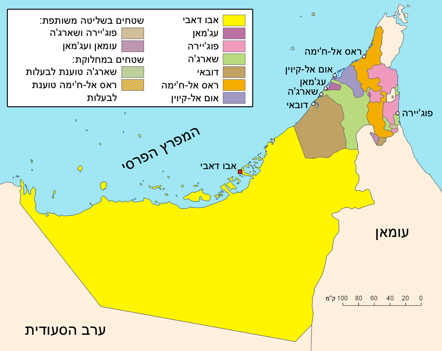 Administrative map of the United Arab Emirates